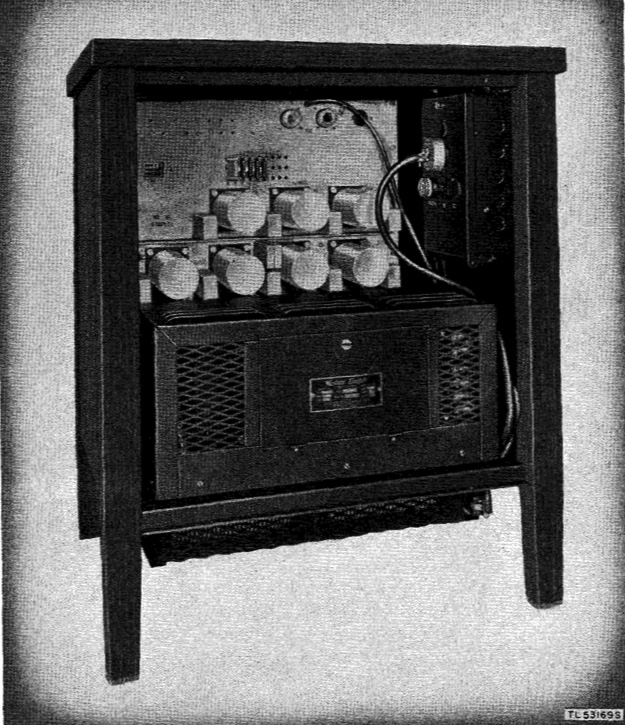 Type 131B2 mixer, used by the U.S. to encrypt teletypewriter transmissions during World War II and up to 1960 by combining plaintext data with a binary key stream using the XOR operation. Used with SIGTOT one-time-tape and SIGSUM key generator. Later renamed AN/FGQ-1. Unit photographed from the rear with grill removed. Large cylinders are WEco. 255 polar relays.